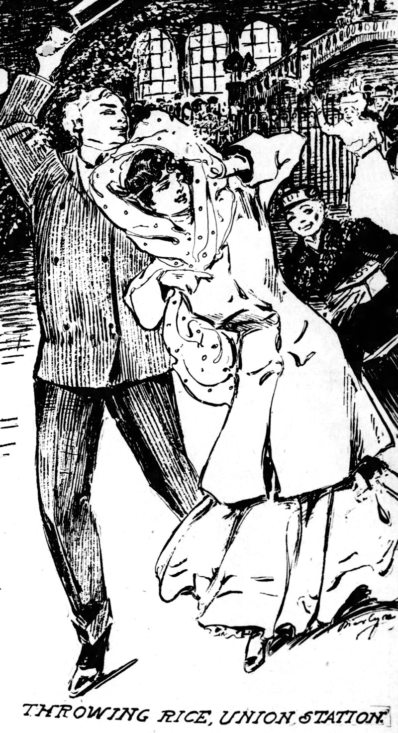 Fanciful drawing by Marguerite Martyn of a newlywed couple at Union Station, followed by a porter. In the background, an older couple throws rice. Published August 19, 1906, in the St. Louis Post-Dispatch.